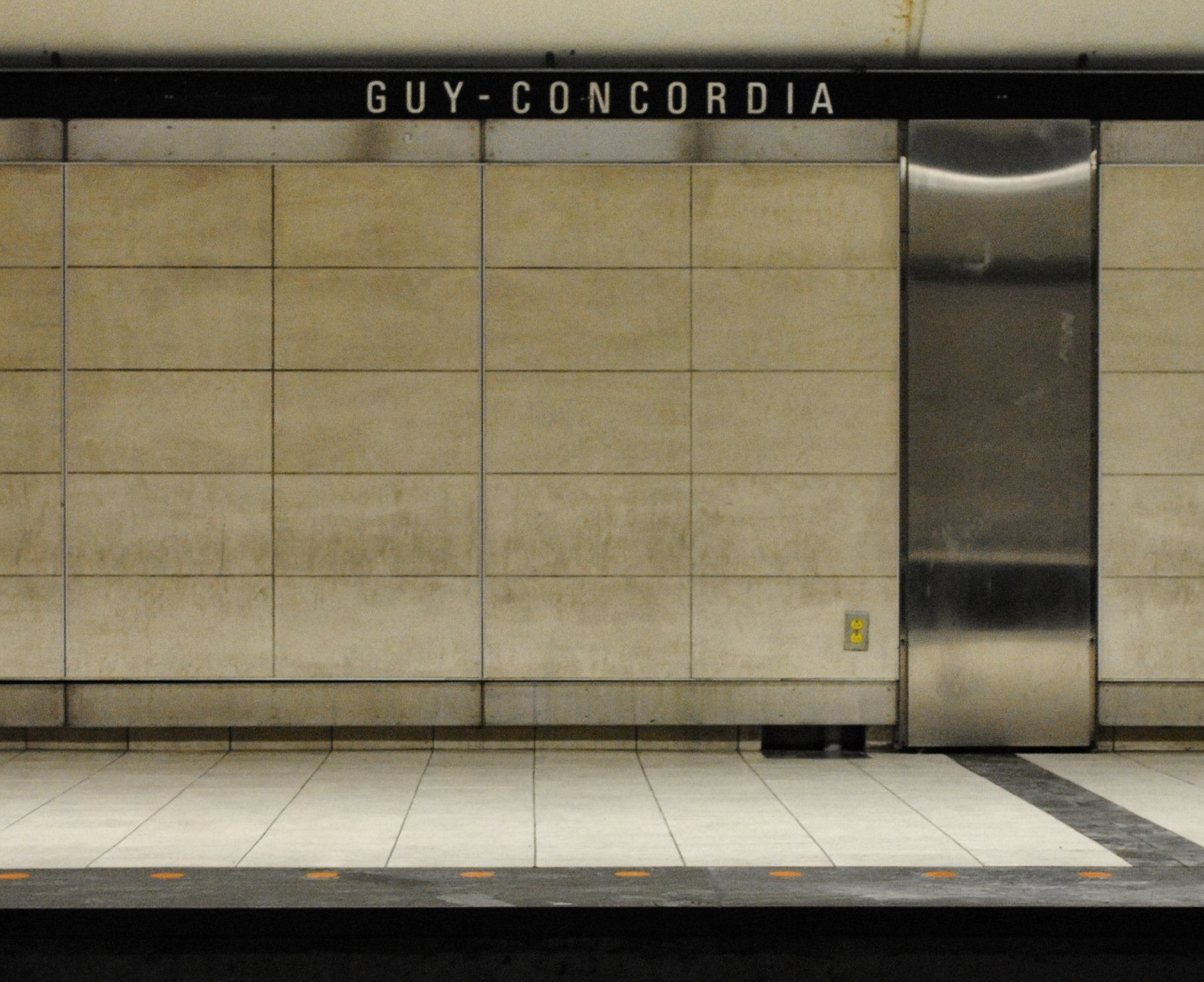 Wall of Guy-Concordia Station in Montreal Metro